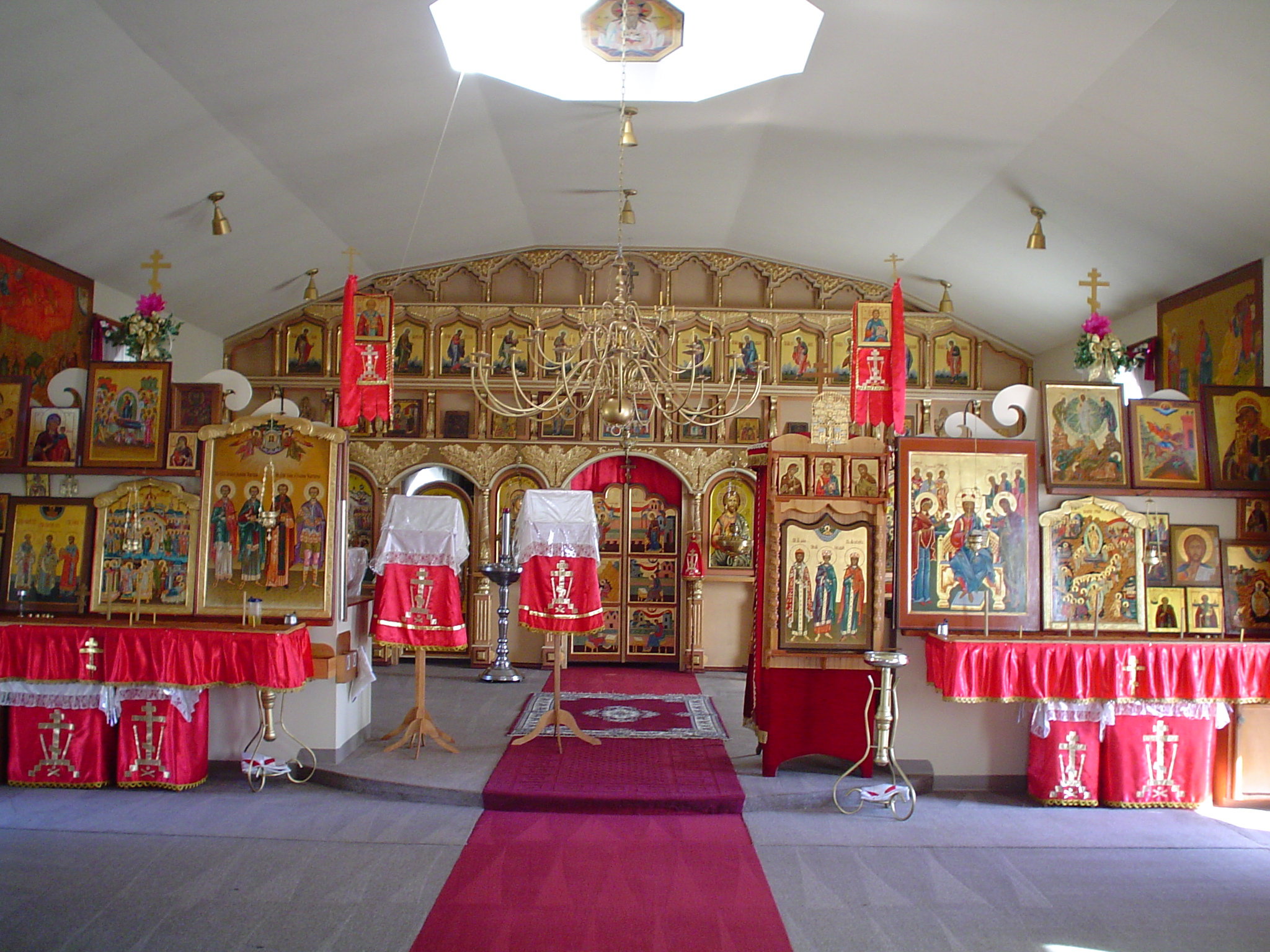 I took this picture about a month ago, inside an Old Believer church just outside of Gervais. -- Andrew Parodi 05:52, 1 May 2007 (UTC)